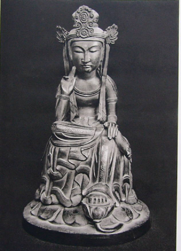 Maitraya, Bronze, Figure Height 31.2cm, ACE666, Yachuji Temple, Osaka, Japan